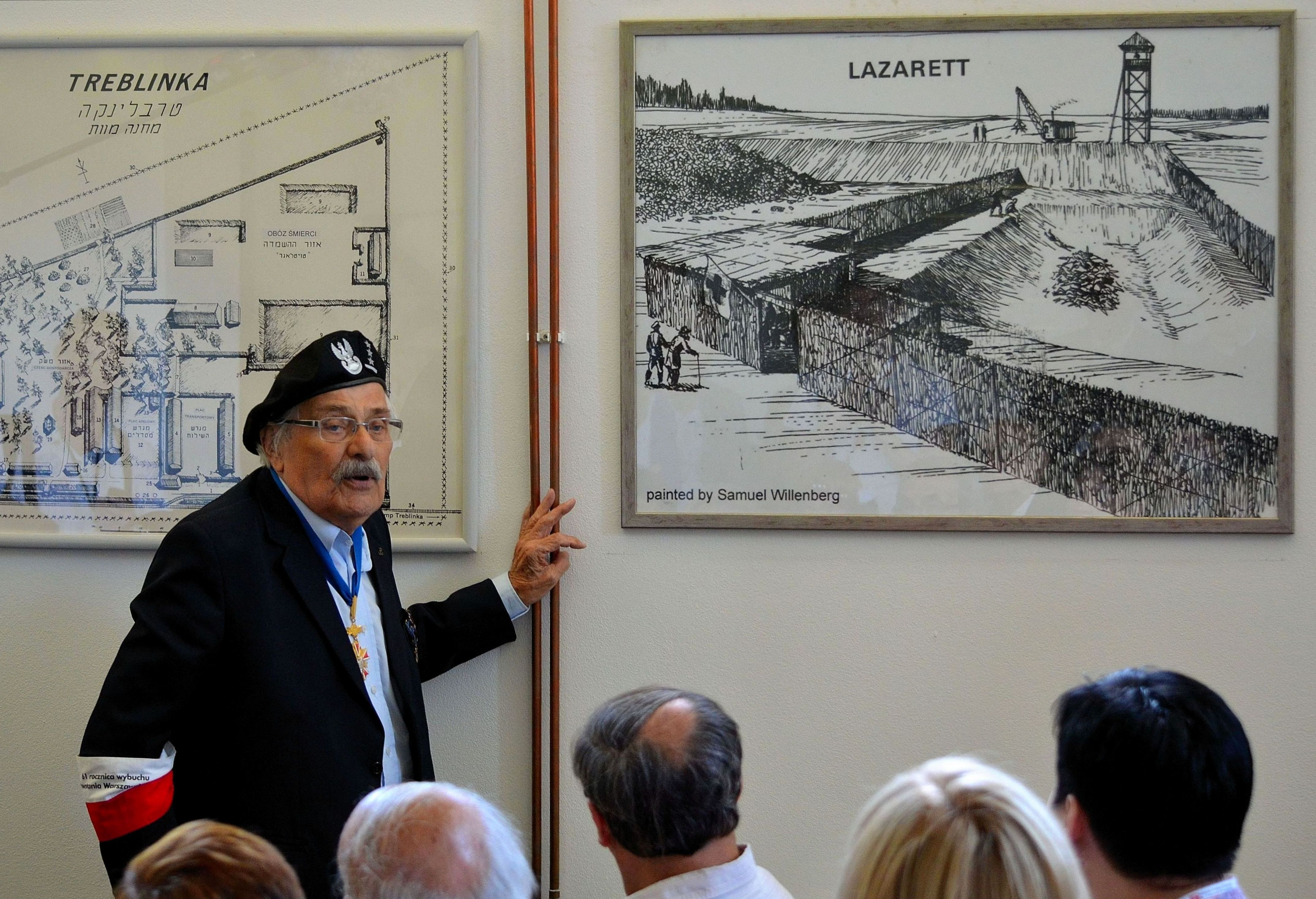 Samuel Willenberg presenting his drawings of Treblinka II at the Museum of Fight and Martyrdom in Treblinka. 70th anniversary of the revolt in Treblinka death camp